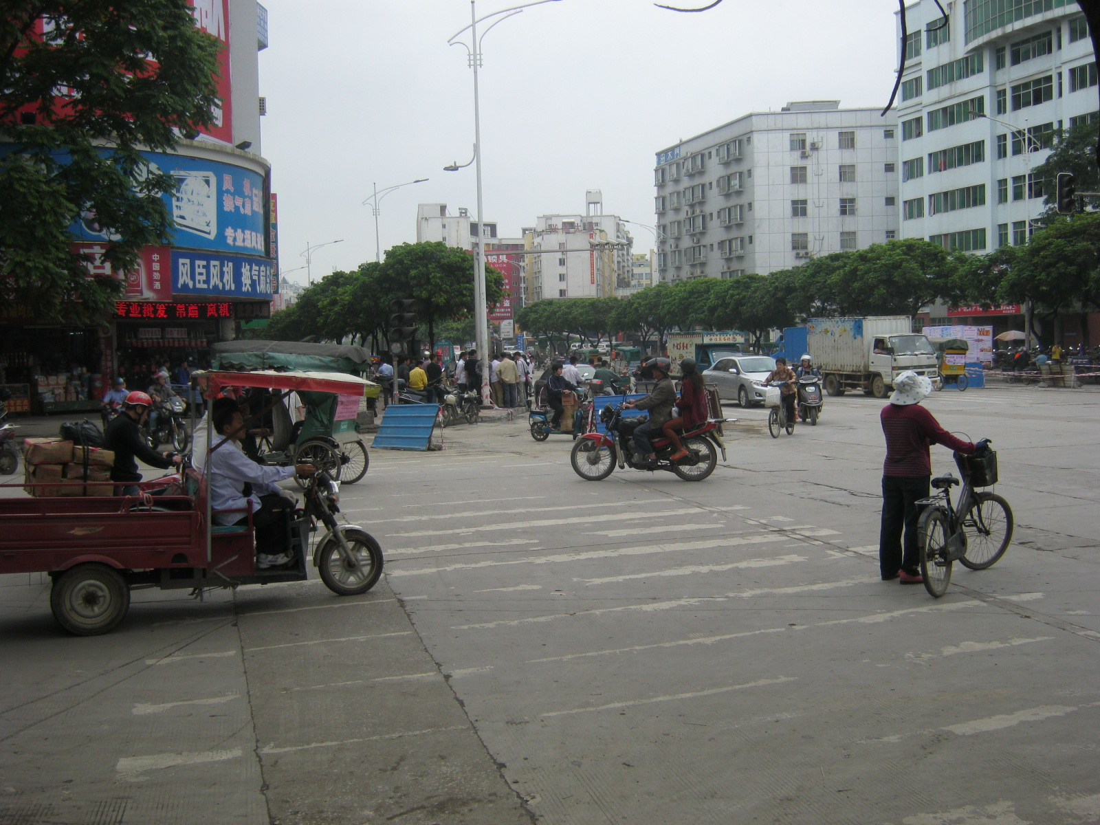 Guigang in 2013, Liberation Street 解放路